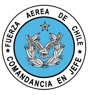 Coat of arms of the Commander-in-chief of the Chilean Air Force without a white background